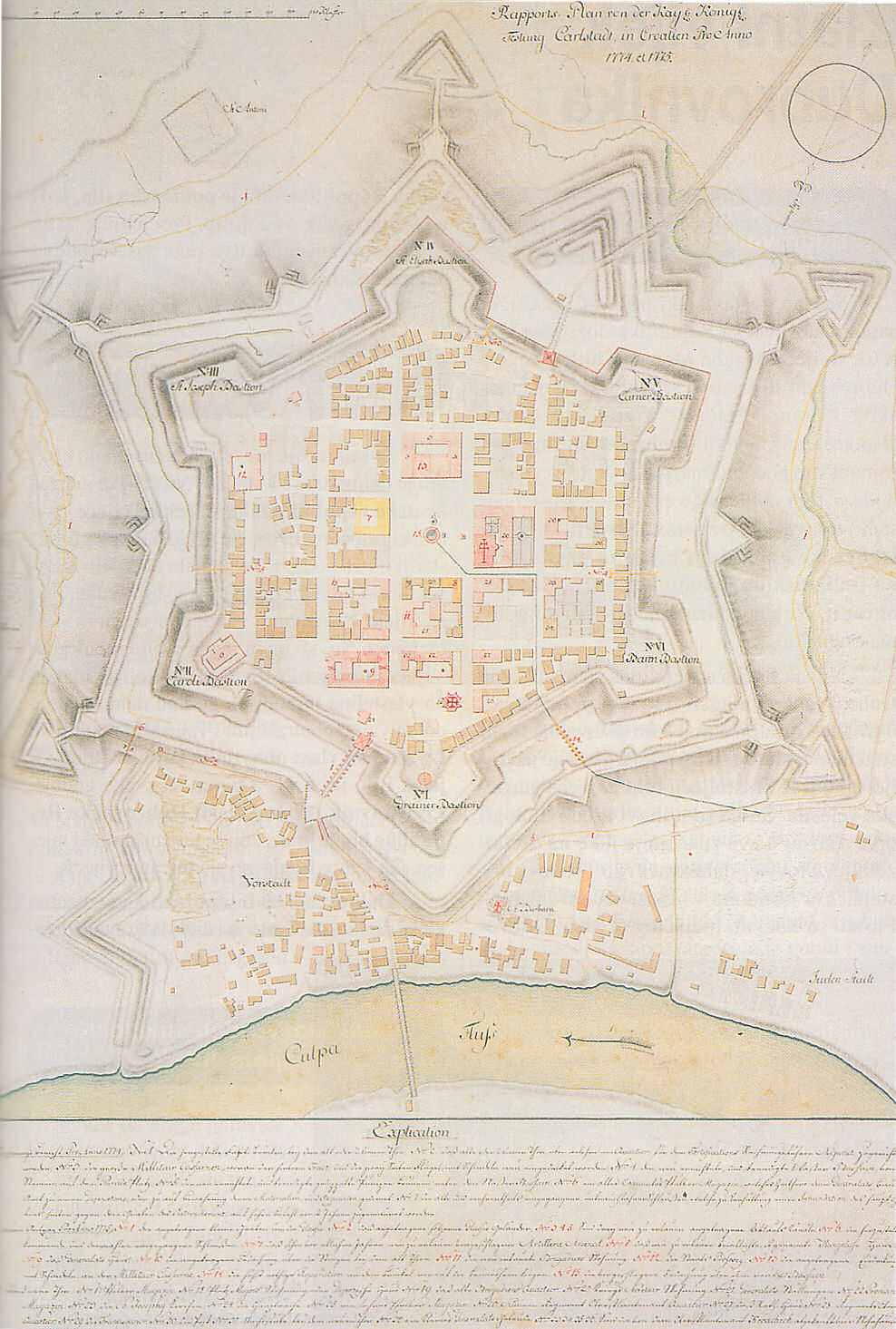 Renaissance star-shaped fortress in Karlovac, Croatia (designed in 1774)